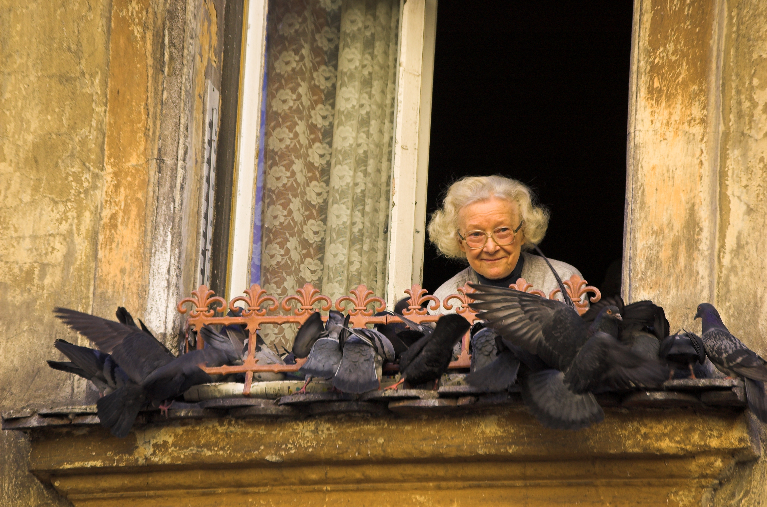 An old woman feeding birds in Kazimierz, the old Jewish district in Krakow, Poland.